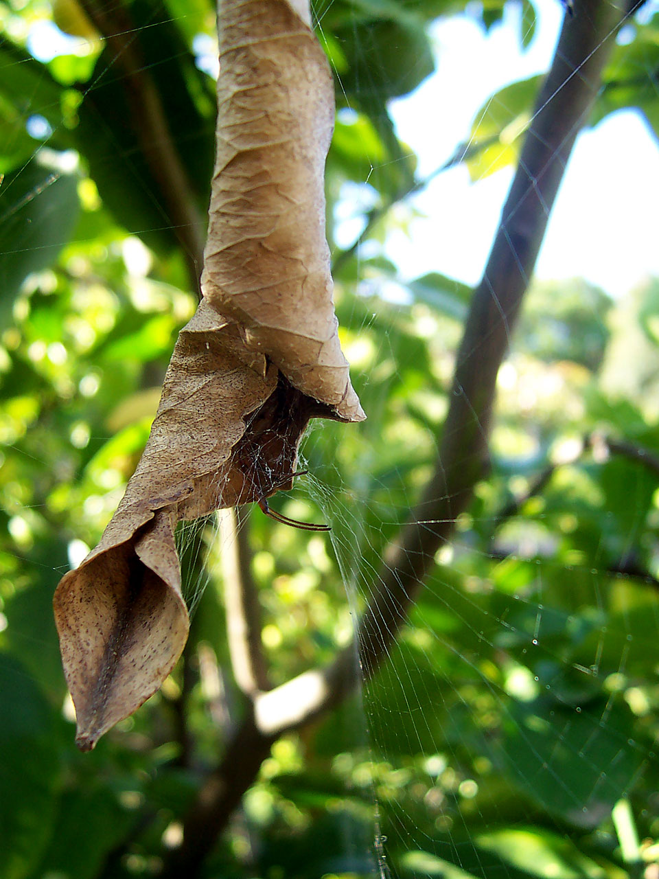 A spiders house in a leaf